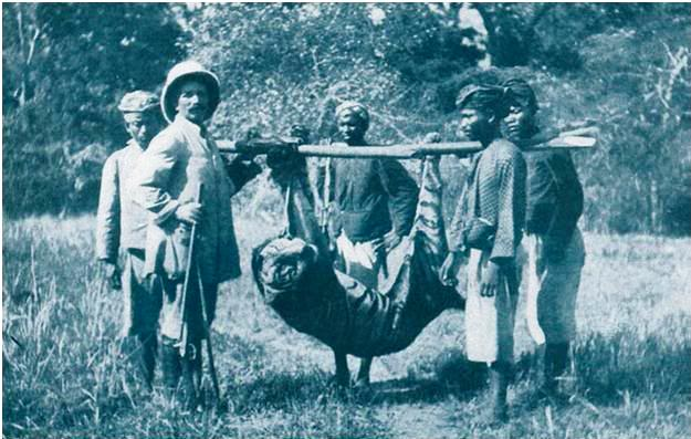 Balinese tiger killed by O. Vojnich in 1911